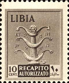 The Silphium of Cyrenaica.